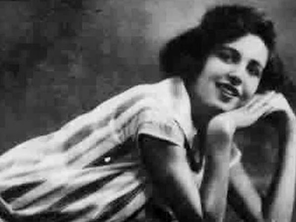 Amina Rizk: Egyptian actress.